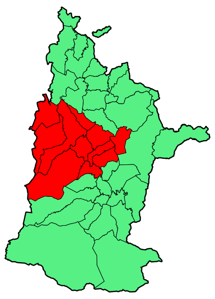 Map of Arbaila in Zuberoa according to Euskaltzaindia